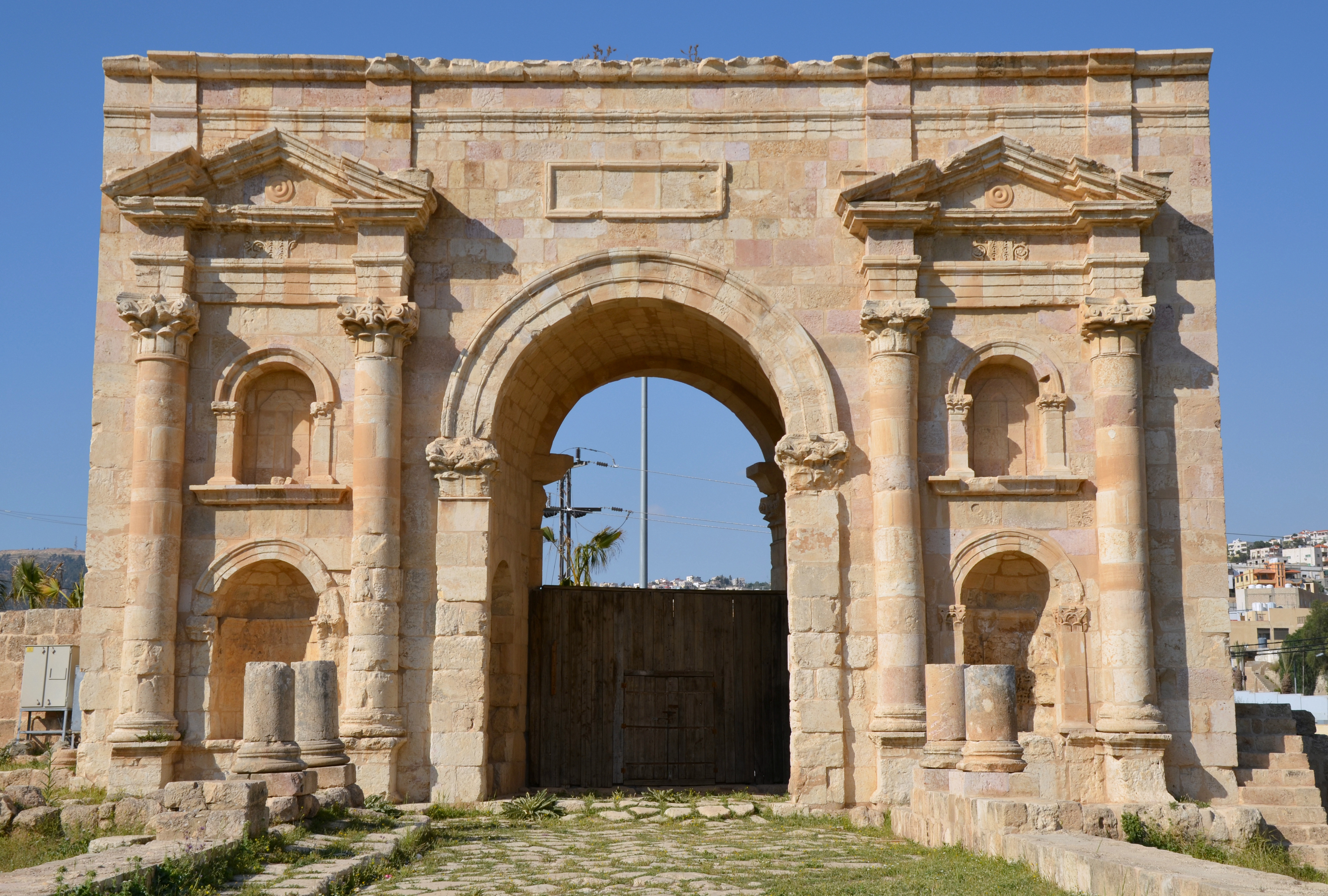 The North Gate marking the northern main entrance to the city, built in 115 AD and dedicated to Trajan as "founder of the city", Gerasa, Jordan